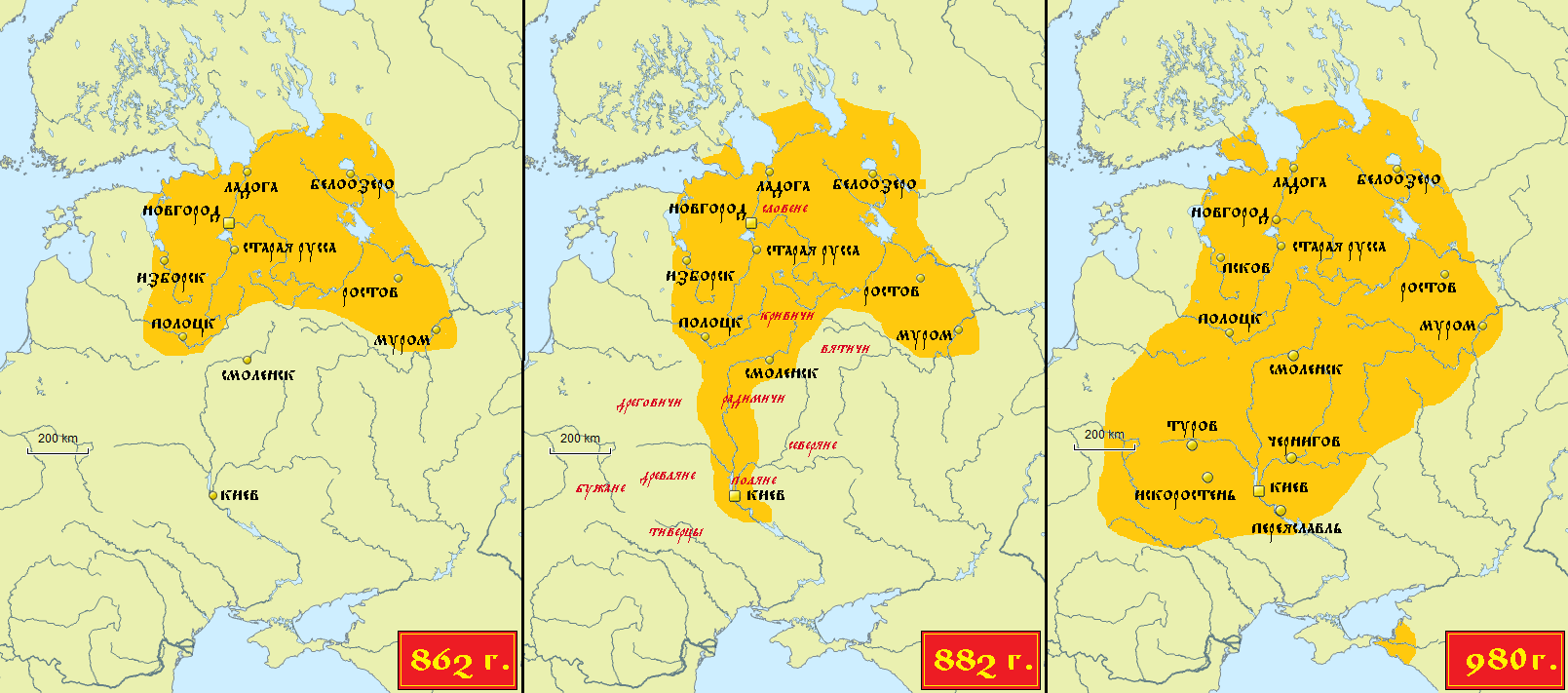 Expansion of the Russian state between 862 and 980